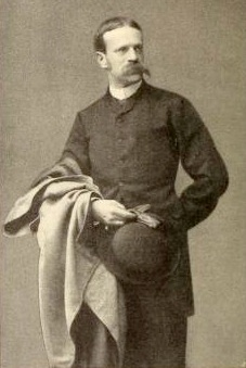 A photo taken when the artist was young